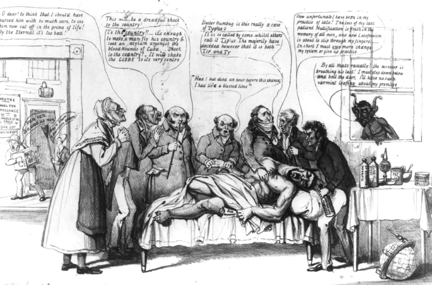 Political cartoon celebrating the defeat of "Loco Foco"